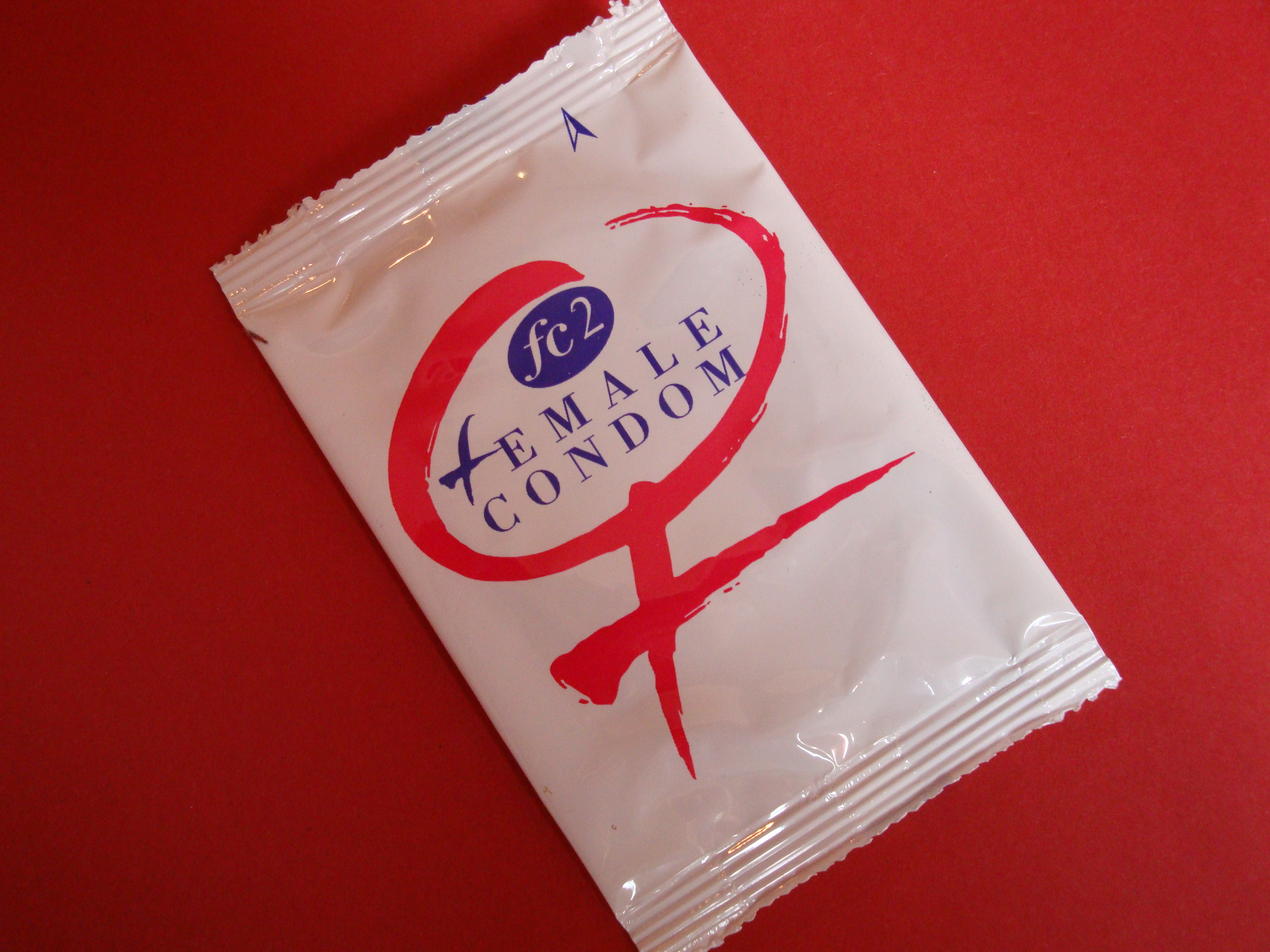 Female condom pack